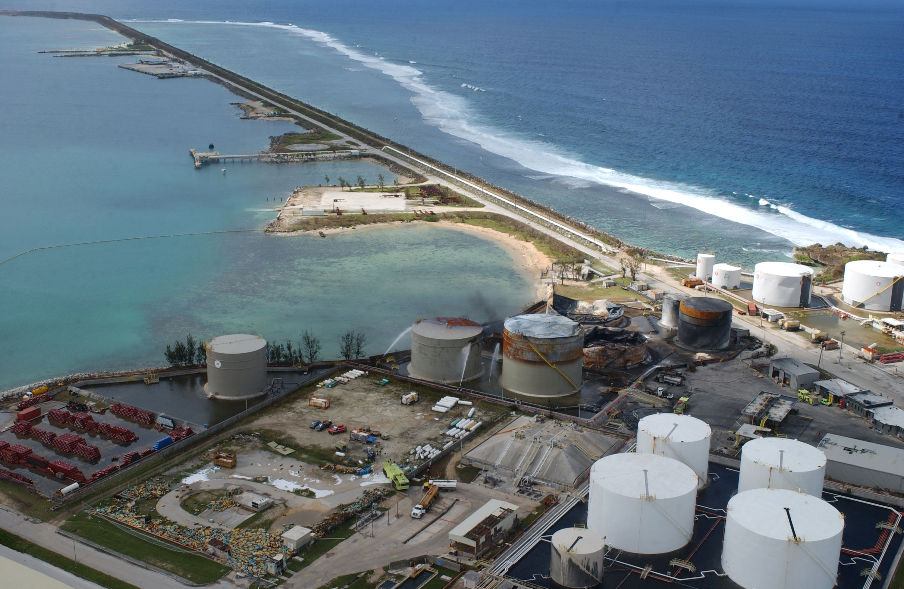 Apra Harbor, GUAM, December 13, 2002 -- Firefighters extinguish fires from jet fuel tanks that were burning out of control due to Supertyphoon Pongsona. The fire blocked access to gasoline supplies for the island and has caused the shutdown of Apra Harbor, the primary supply and fuel delivery point for Guam. Photo by Andrea Booher/FEMA News Photo